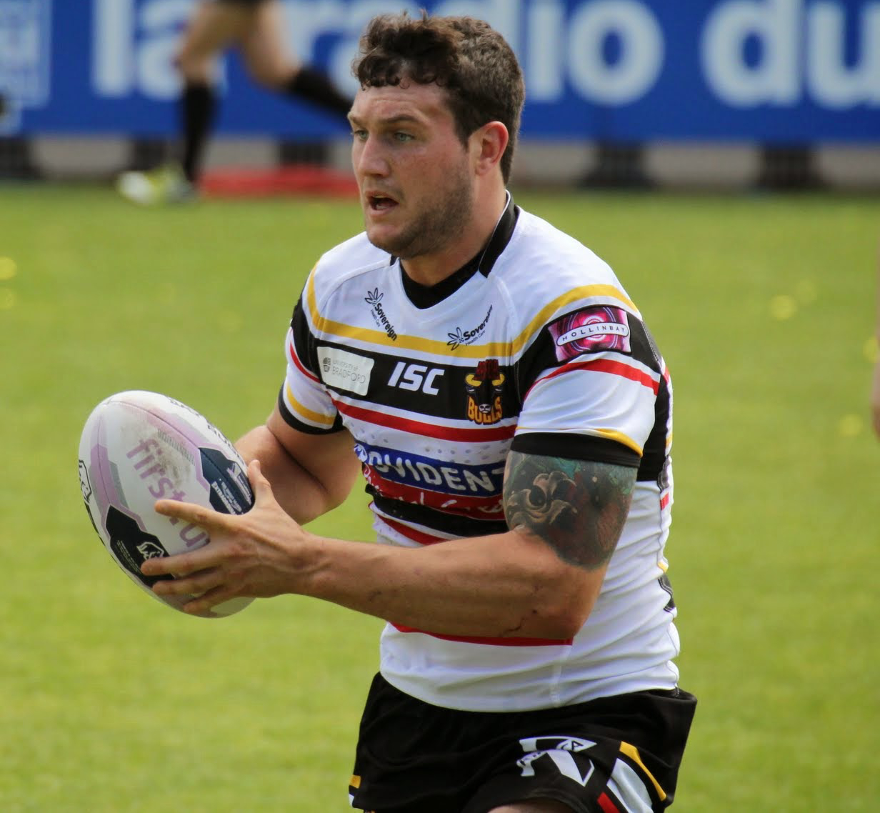 Jay Pitts